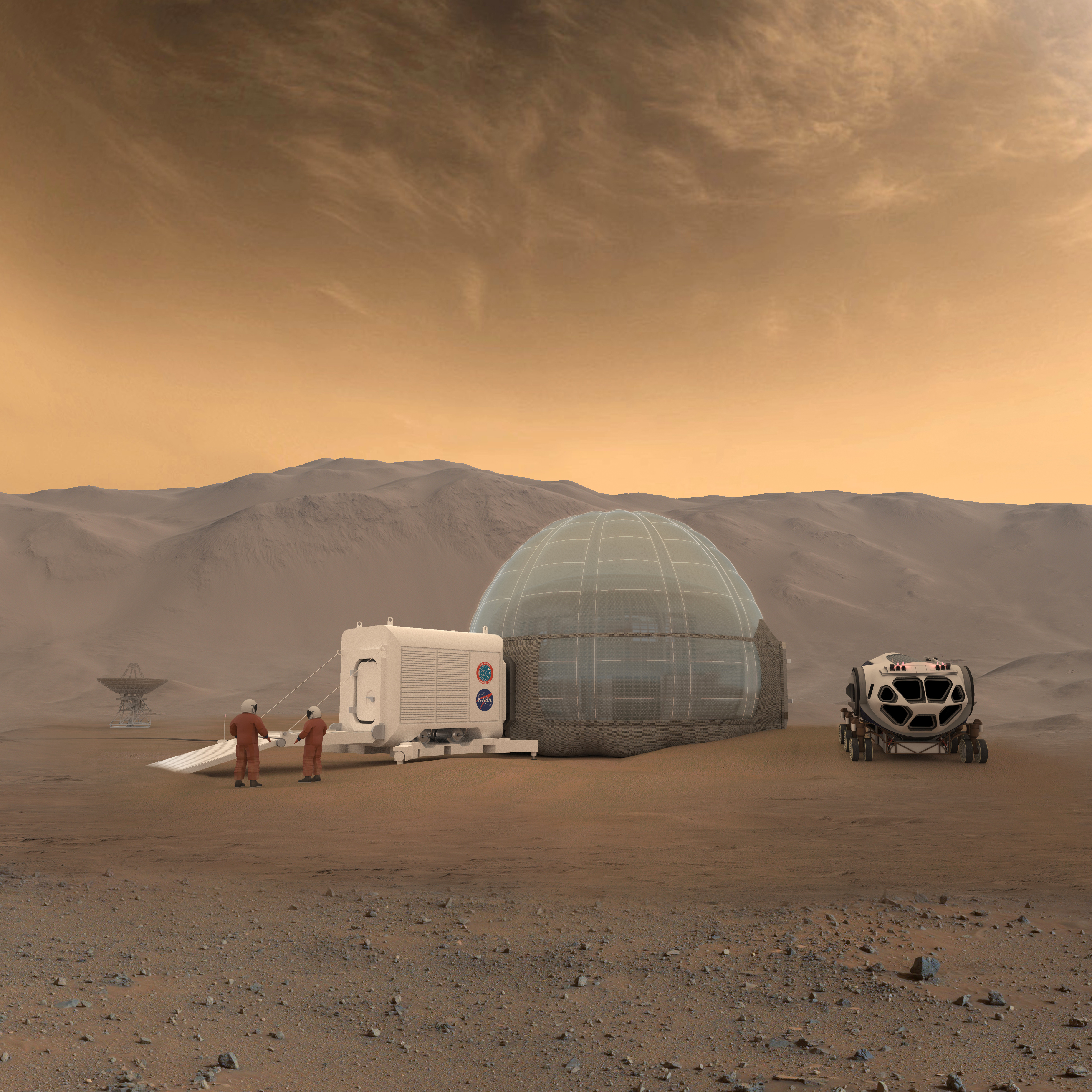 An artist's rendering of the Mars Ice Home concept.